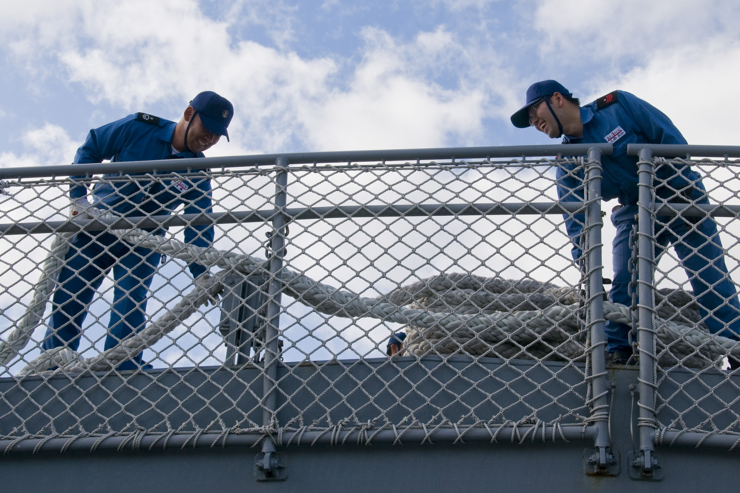 PEARL HARBOR (June 22, 2010) Sailors aboard the Japan Maritime Self-Defense Force guided-missile destroyer JS Atago (DDG-177) perform line handling as the ship arrives at Joint Base Pearl Harbor-Hickam for Rim of the Pacific (RIMPAC) 2010. RIMPAC is a biennial, multinational exercise designed to strengthen regional partnerships and improve multi-national interoperability. (U.S. Navy photo by Mass Communication Specialist 2nd Class Paul D. Honnick/Released)